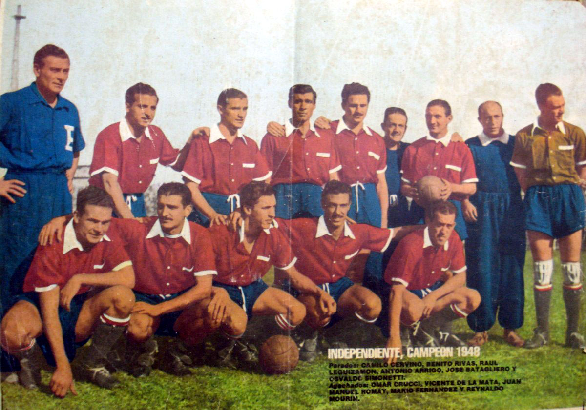 Club Atlético Independiente team that won the Primera División title in 1948.